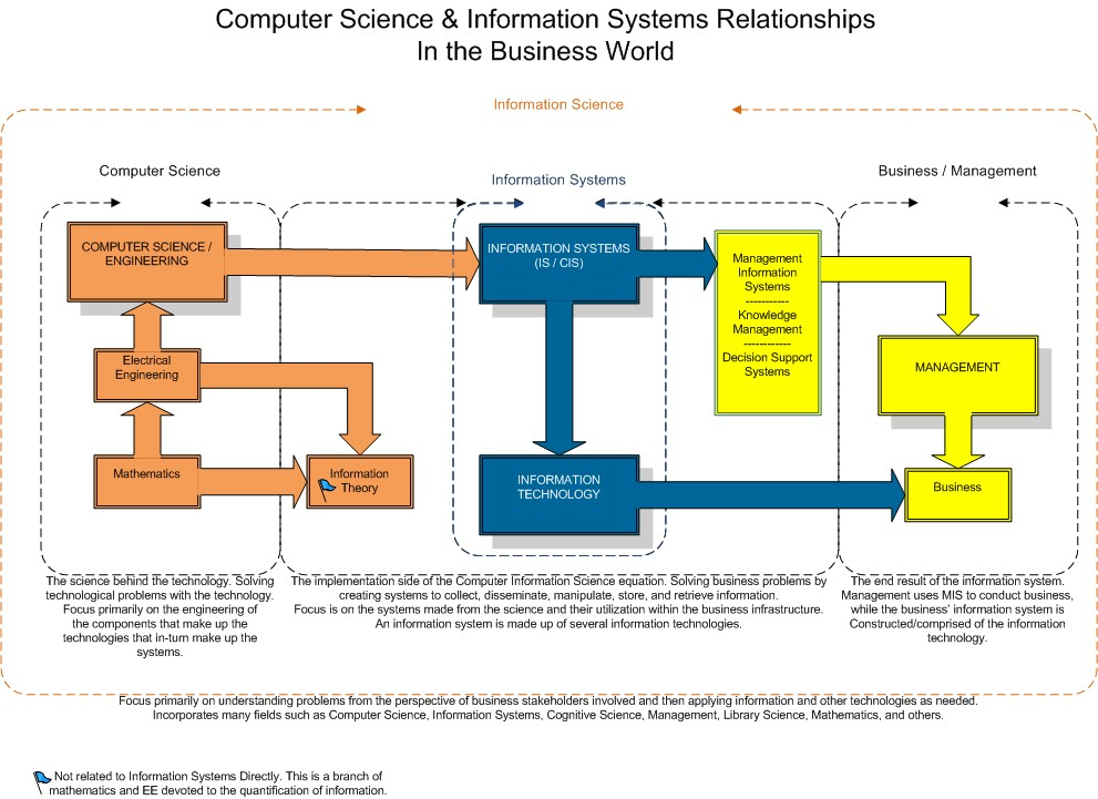 The relationship between Information Science, Computer Science, Information Systems and Management.